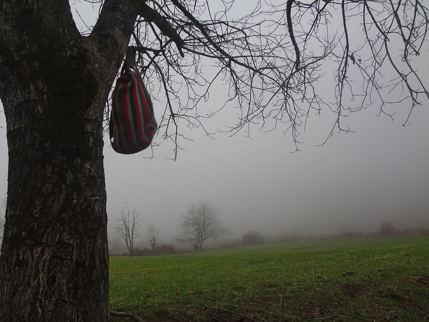 طبیعت بکر اطراف روستای ولم عکس از ابراهیم محسنی